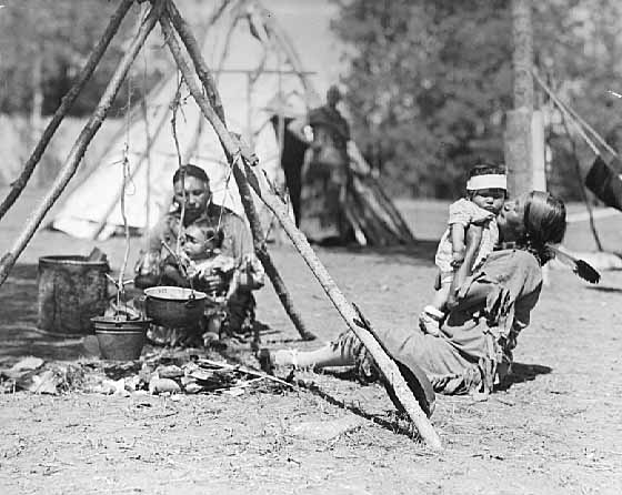 Camp fire Chippewa village Itasca State Park Minnesota 1926